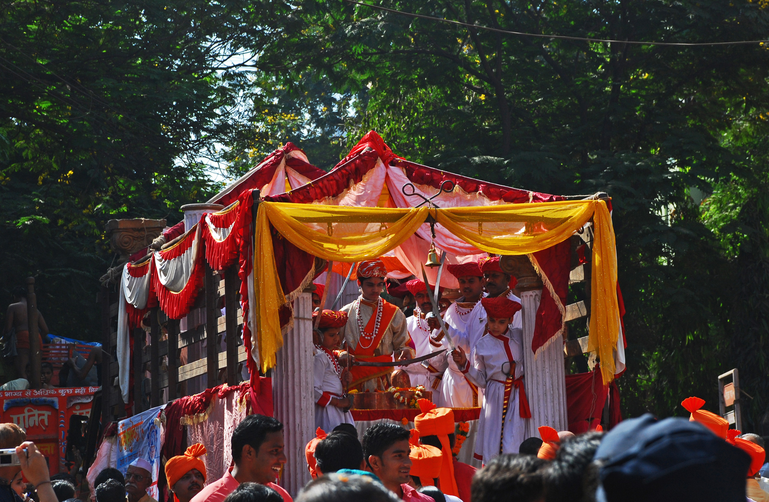 A Marathi Hindu procession on traditional new year day called Gudi Padwa This festival is called Ugadi or Yugadi in other regions such as Andhra Pradesh, Telangana, Karnataka